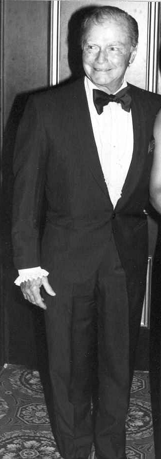 Photo of Don "Red" Barry.